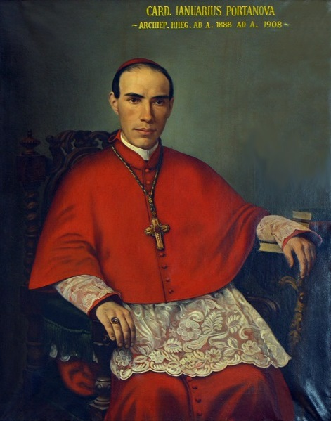 Gennaro Portanova, archbishop of Reggio Calabria